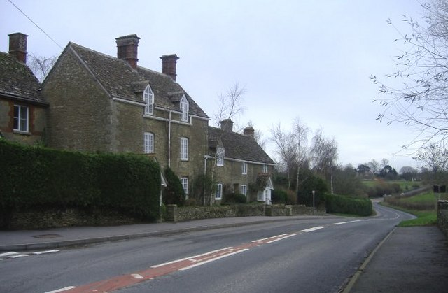 Main road at Long Newnton Looking South East on the B4014 between Tetbury and Malmesbury.